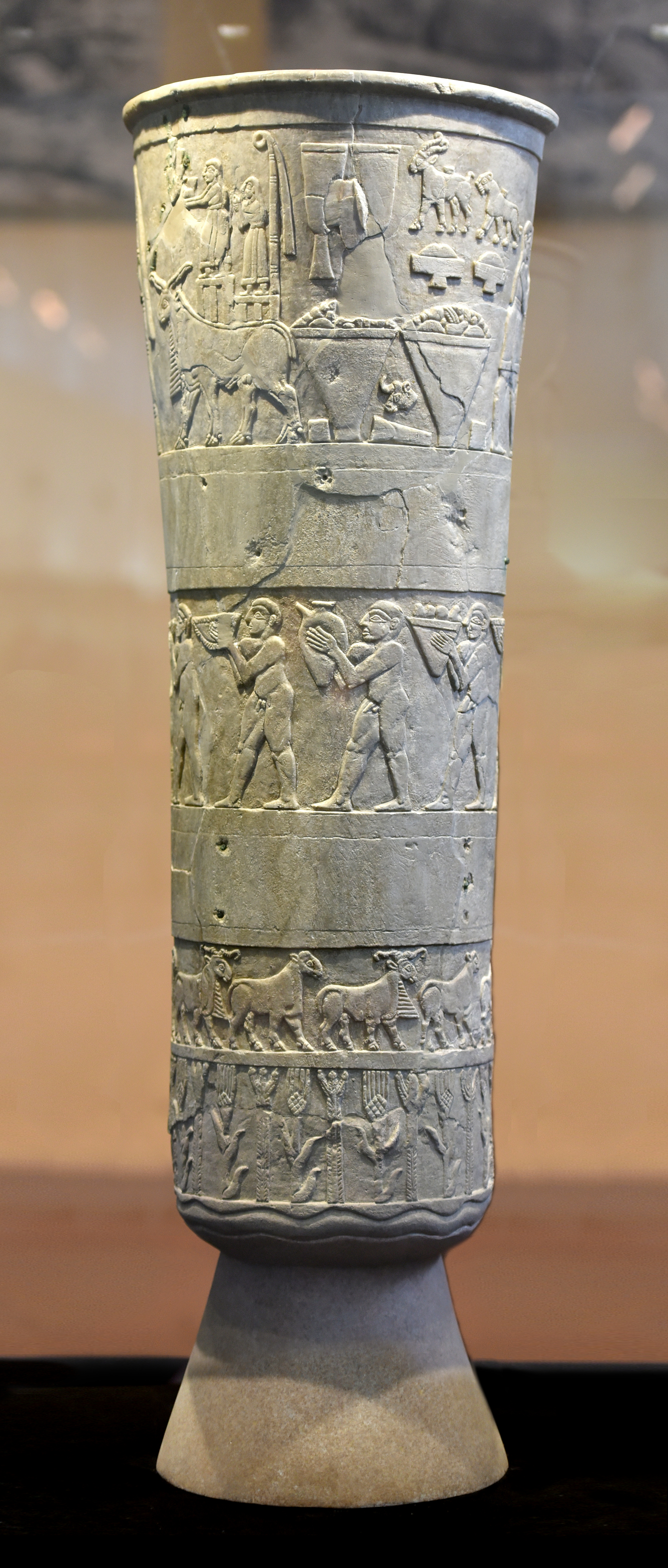 Warka vase (background retouched)